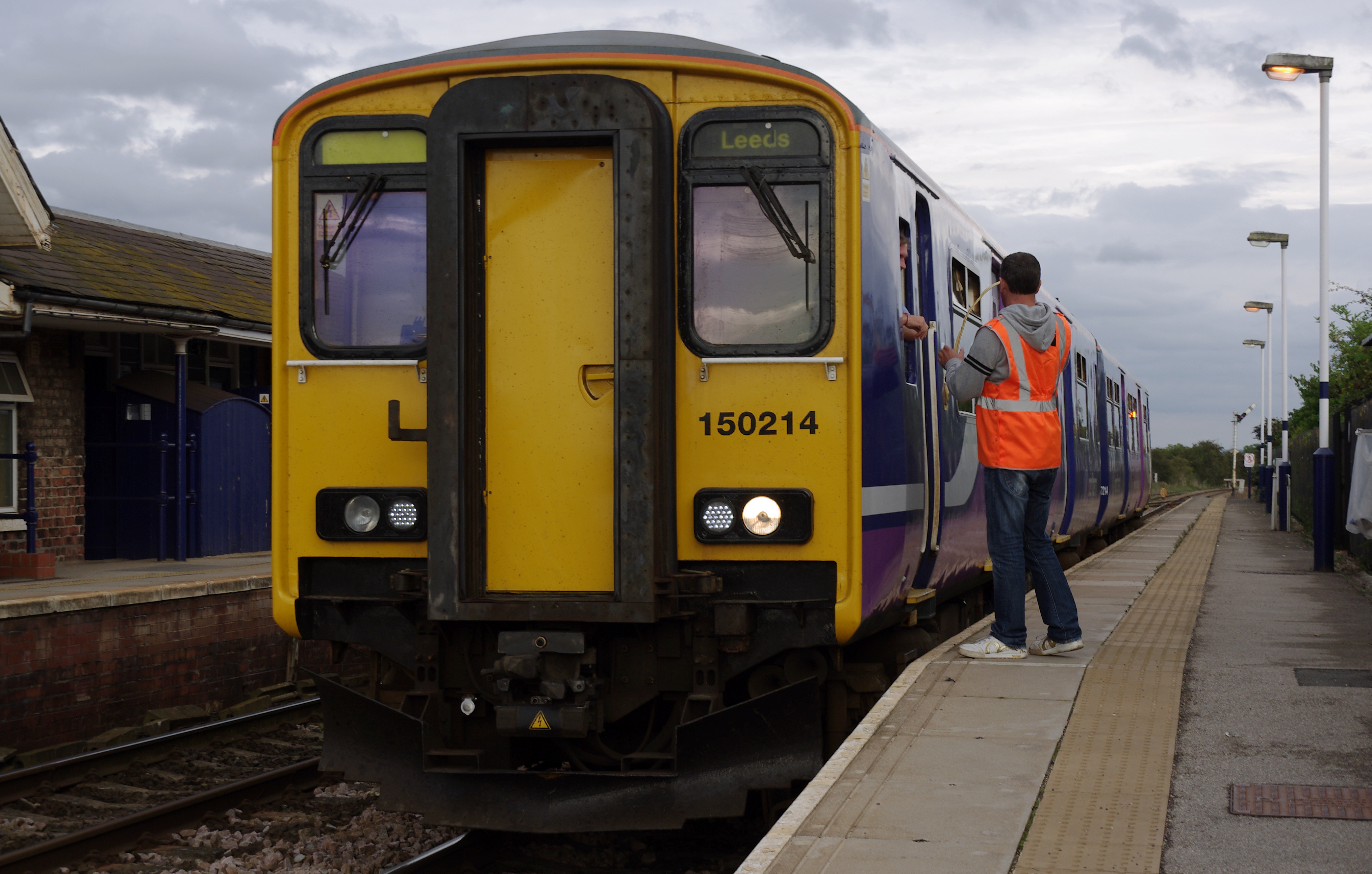 Northern class 150 "Sprinter" DMU 150214 arrives at Hammerton, with the crossing guard and signaller ready to take possession of the single line token for the section to Poppleton. The unit is forming a York-Leeds Harrogate Line service.